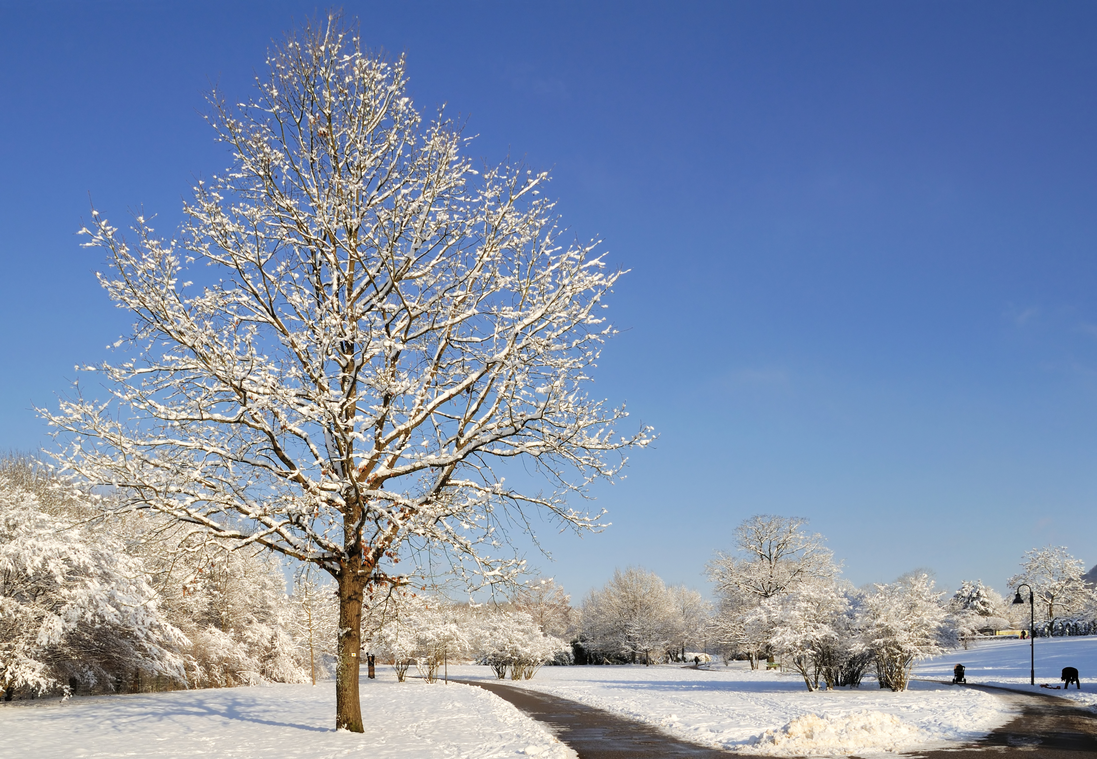 Lörrach: Park "Grütt" in wintertime